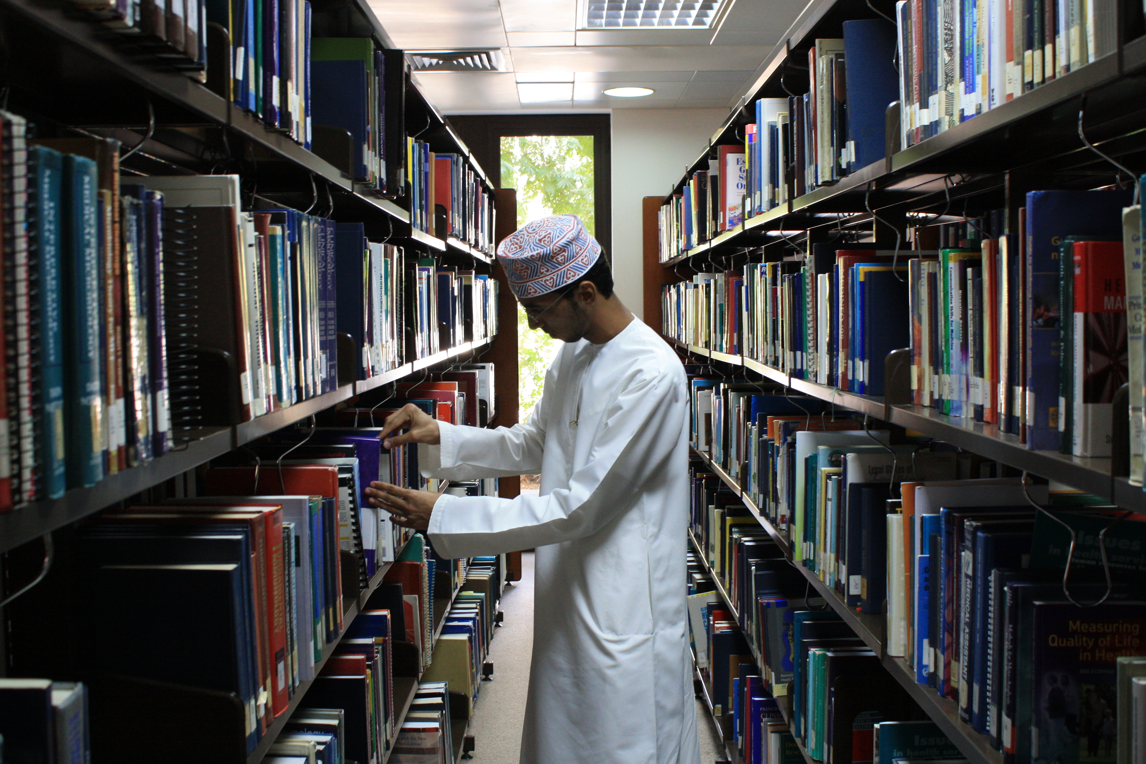 The Medical Library